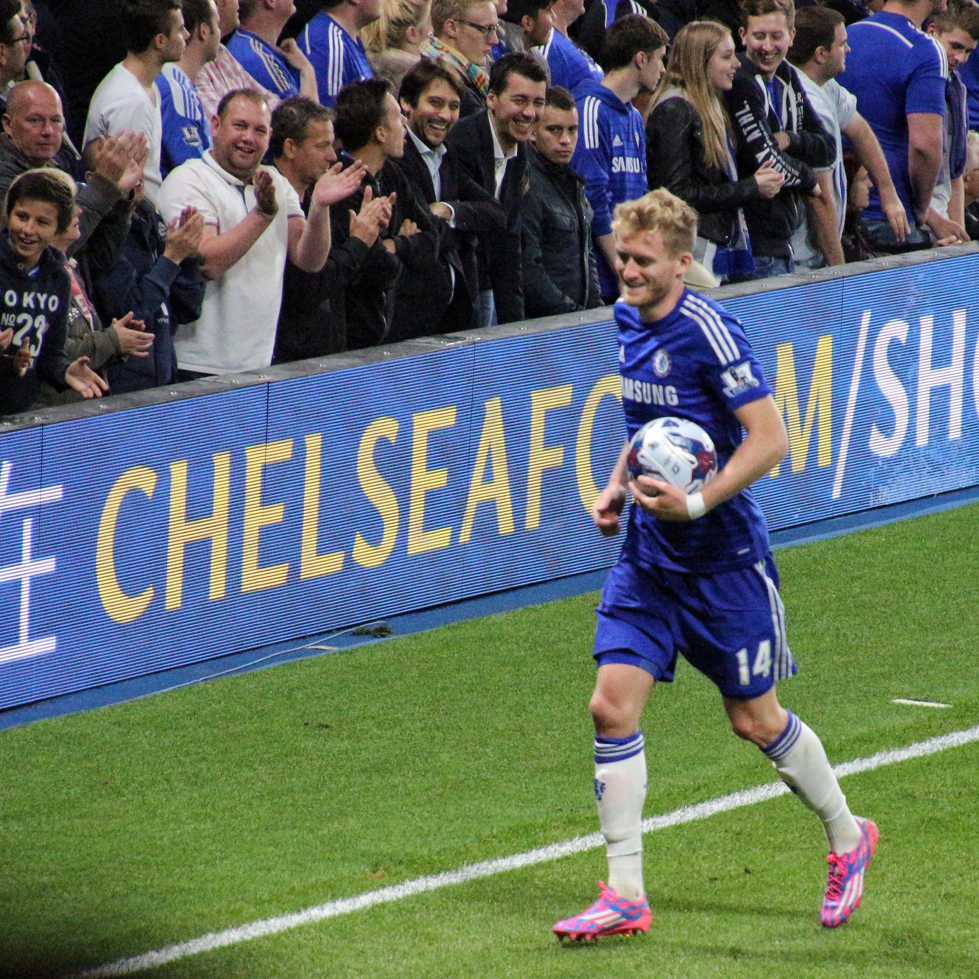 Chelsea 2 Bolton Wanderers 1 Chelsea progress to the next round of the Capital One cup